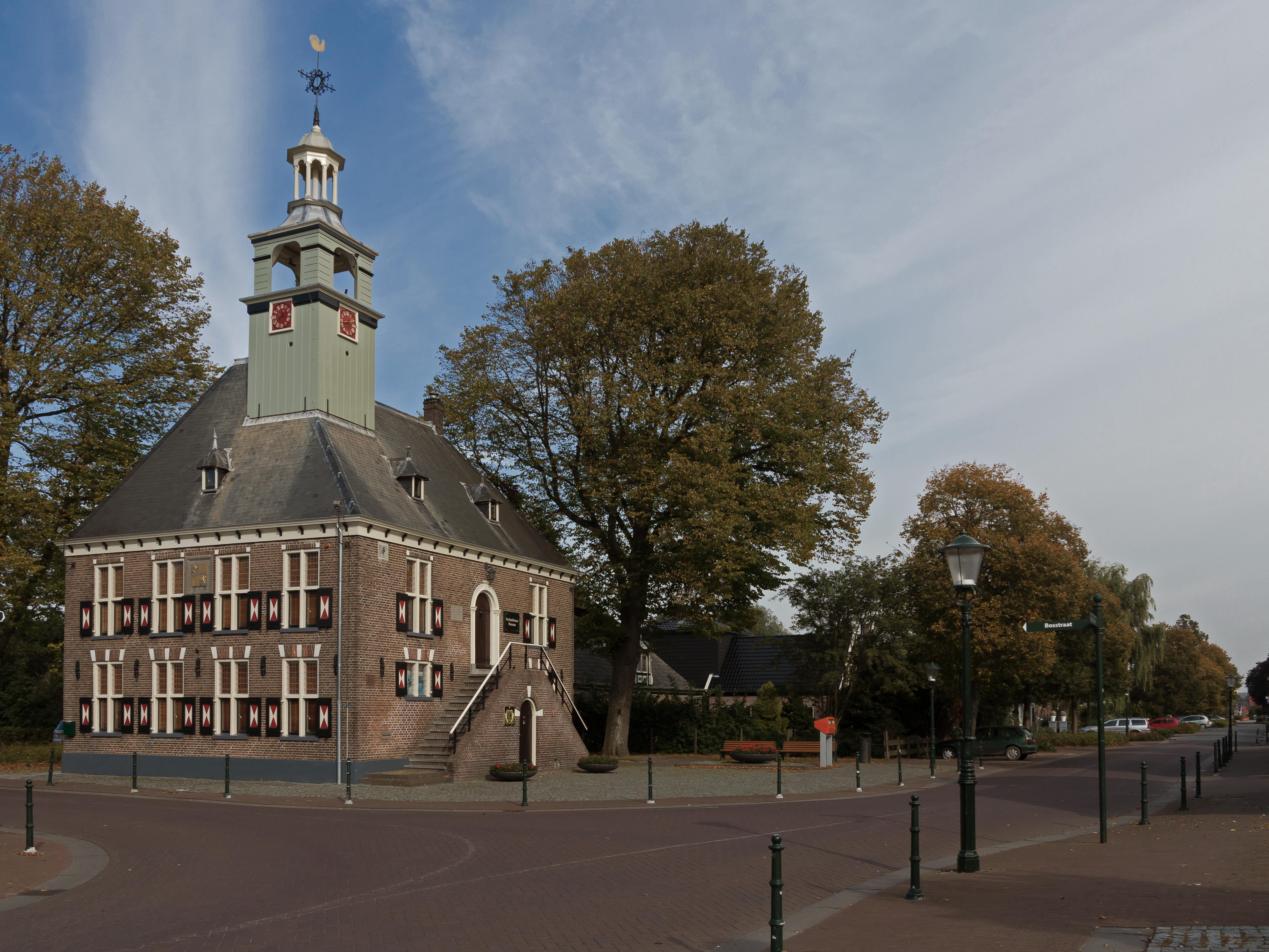 Winkel, museum: het Nederlands Parfumflessenmuseum